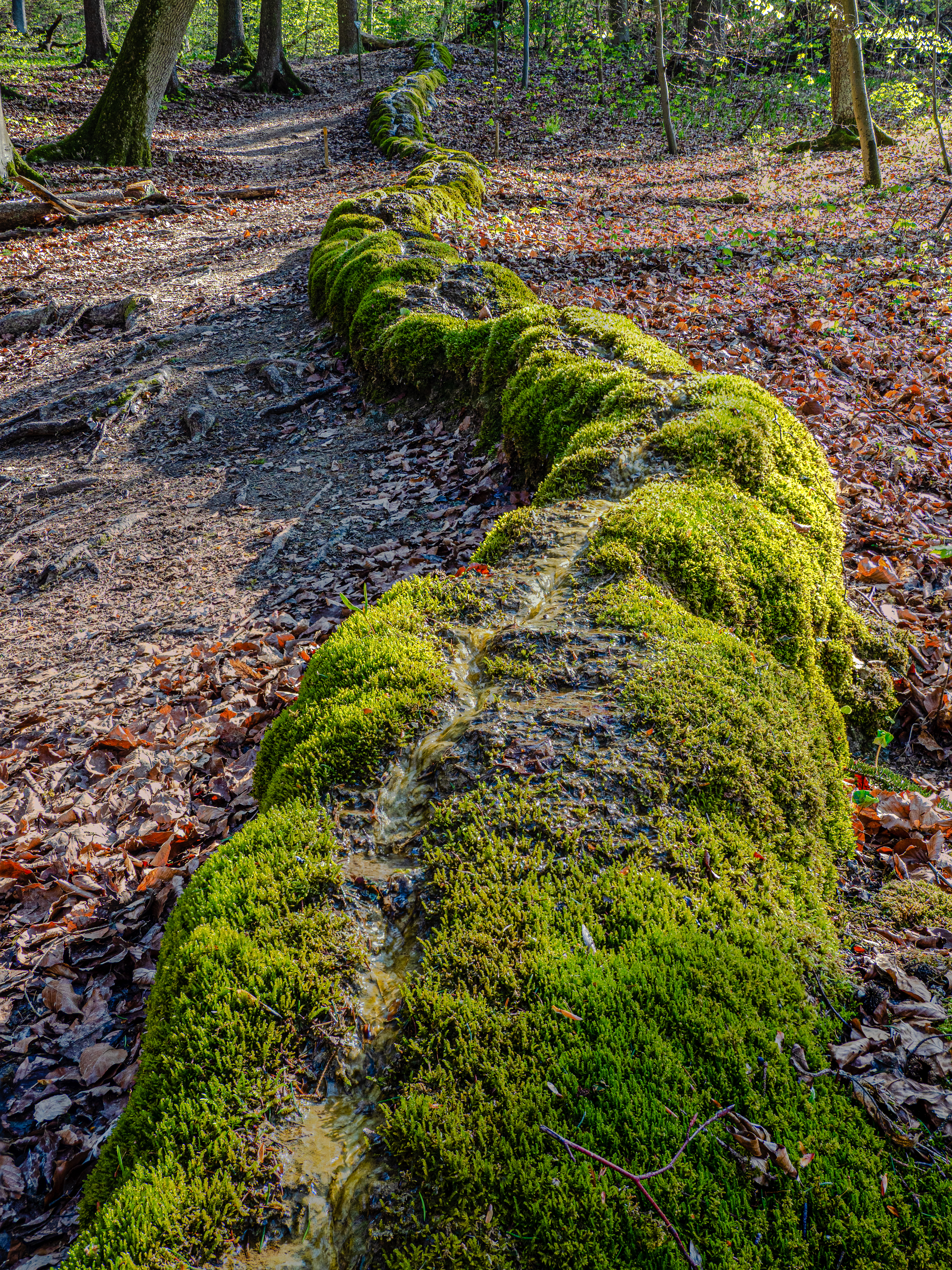 Stone channel at Roschlaub